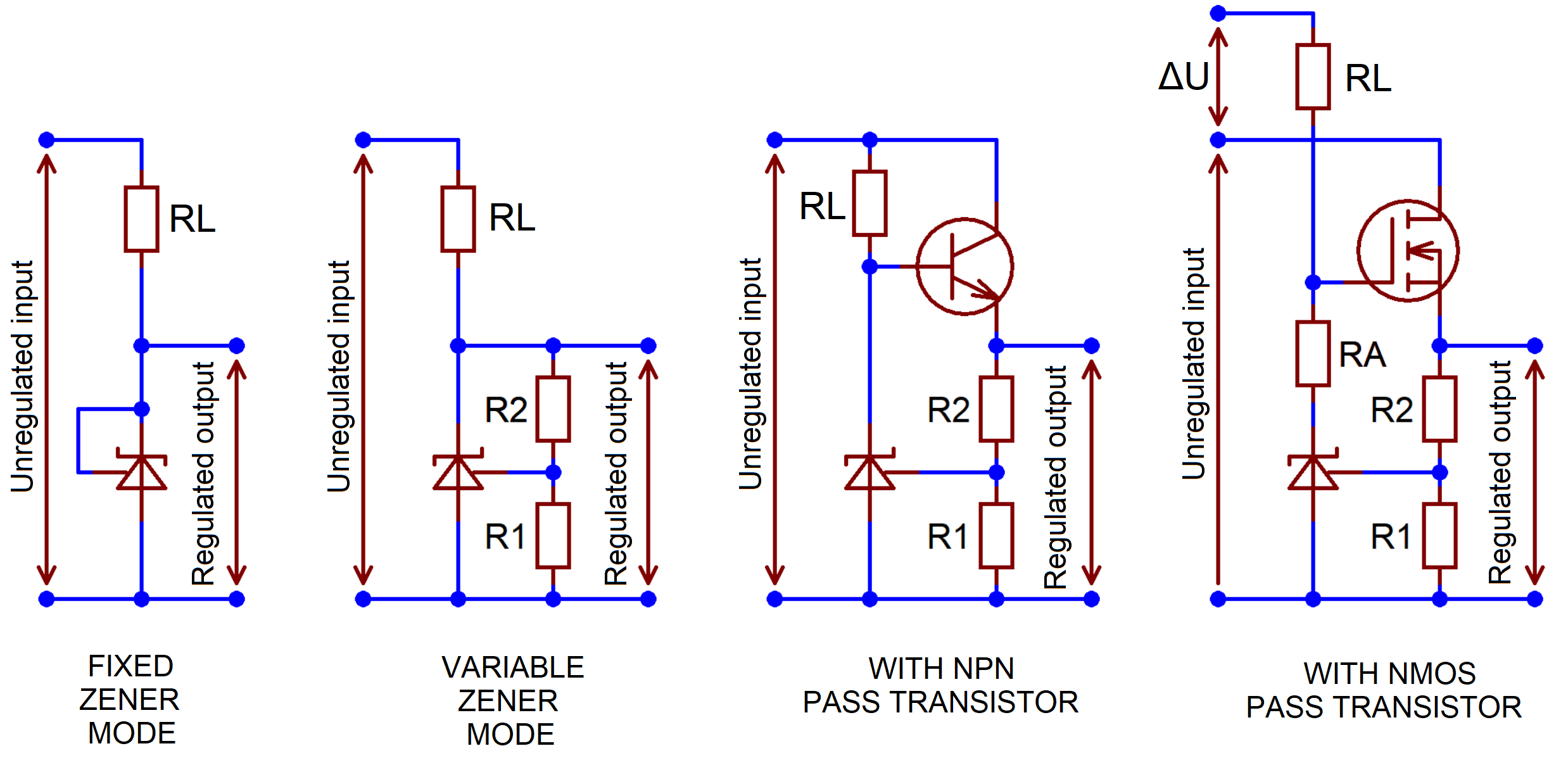 Basic TL431-based linear regulator circuits